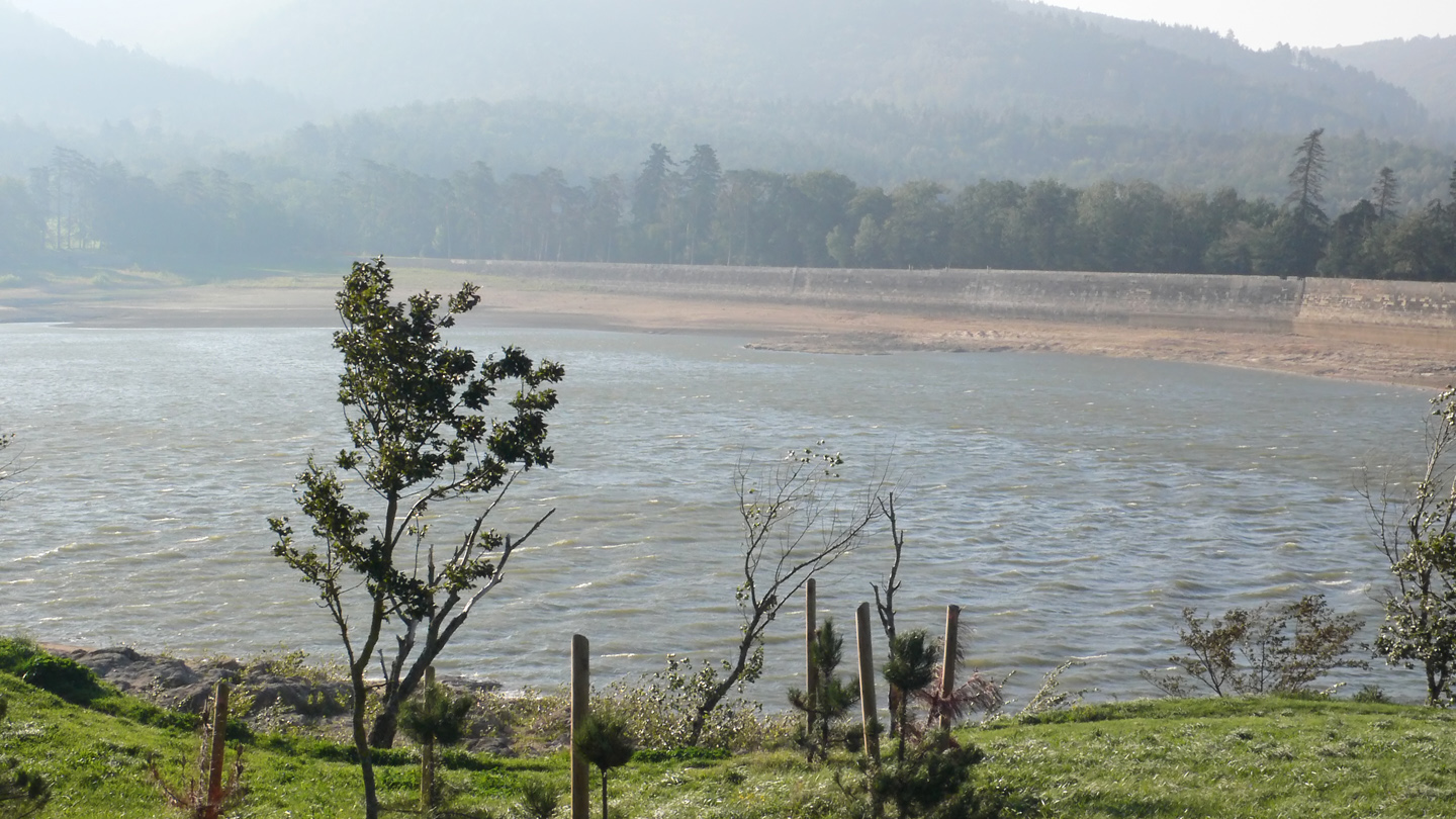 Artificial lake of Saint-Ferréol, supporting the Canal du Midi